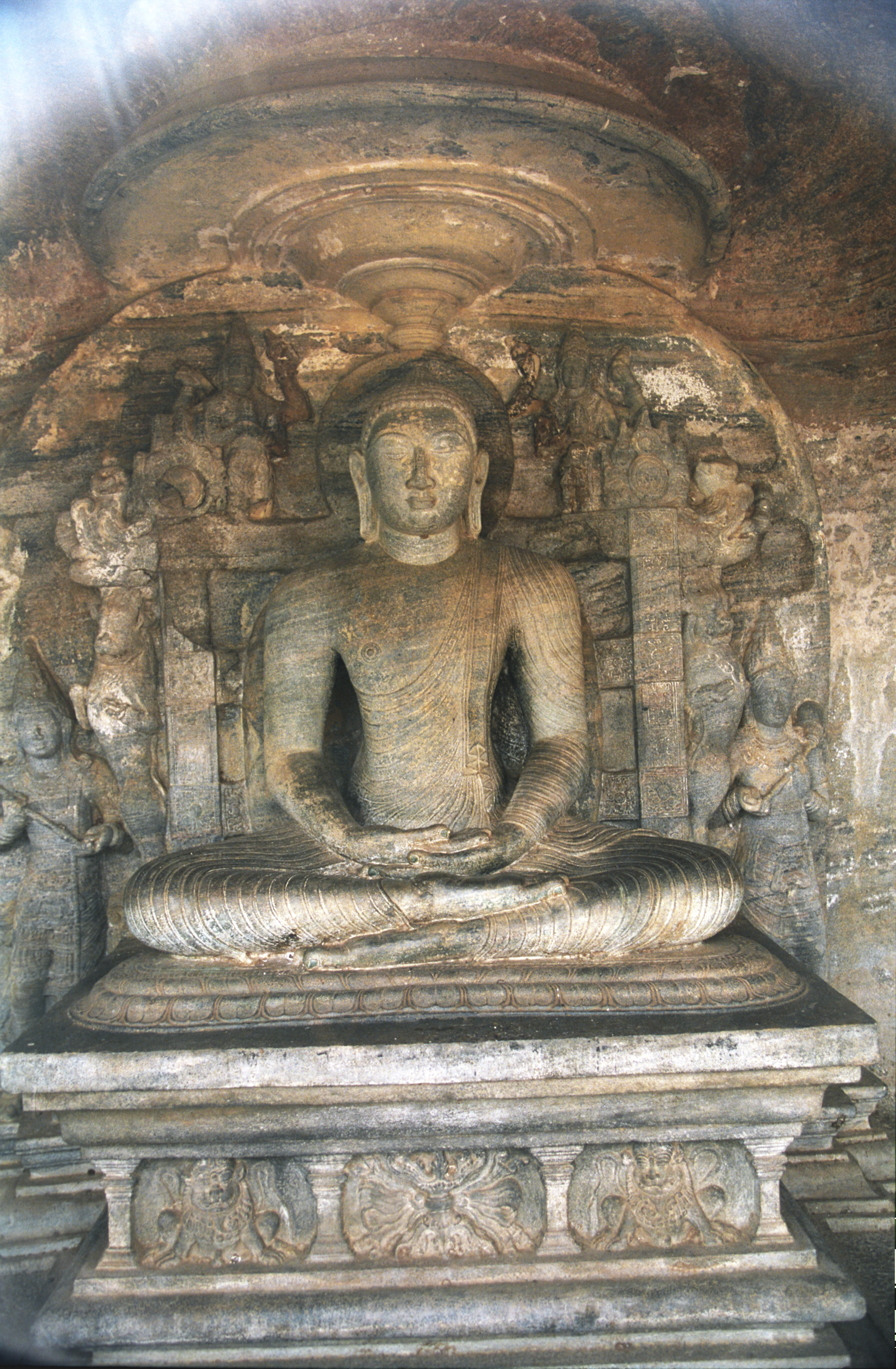 Vijjadhara Guha, Gal Viharaya, Polonnaruwa, Sri Lanka